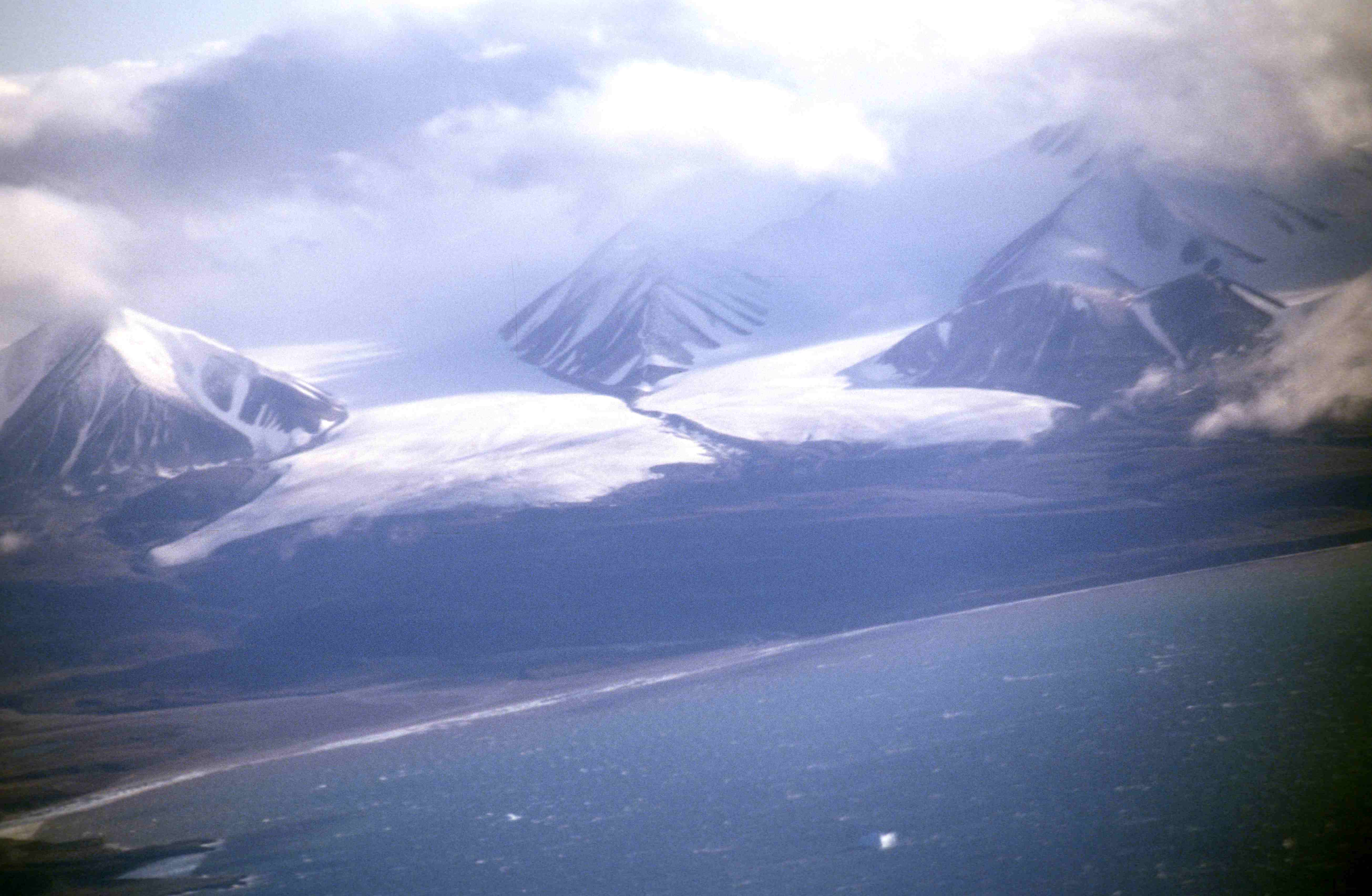 Unnamed glacier near northern coast of Bylot Island (at Lancaster Sound, Sirmilik National Park, Canada)